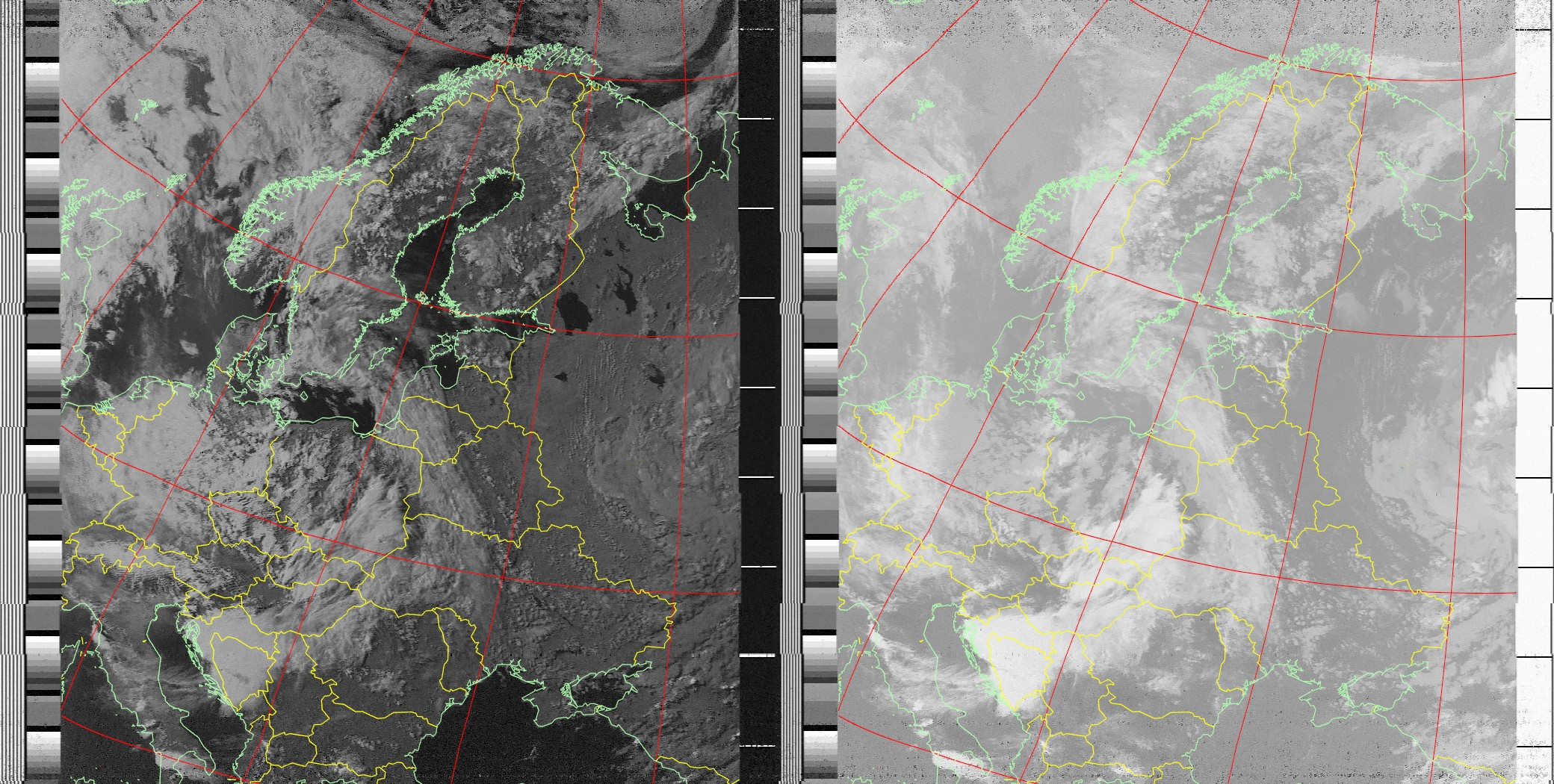 Partially processed weather image, taken from NOAA-15 satellite, using APT protocol. The original image structure is unchanged, borders and shore lines added.